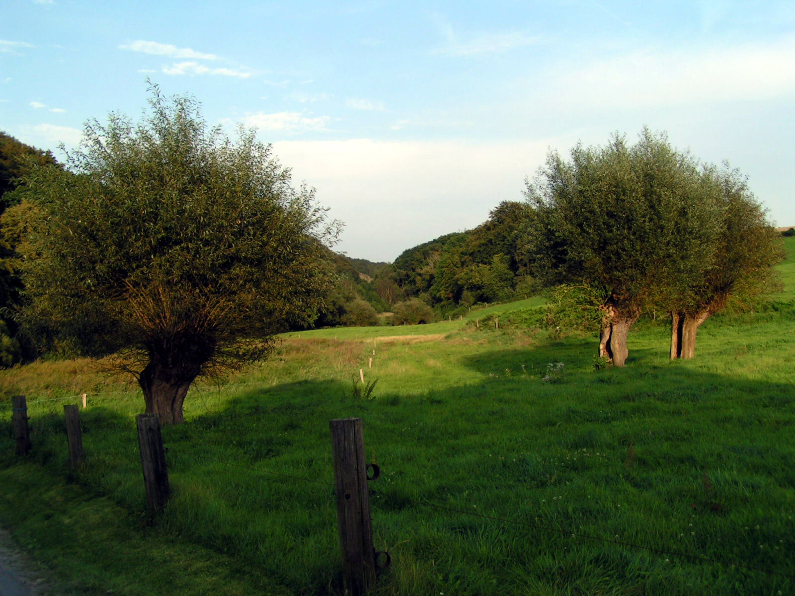 Lottental, Bochum, North Rhine-Westphalia, Germany